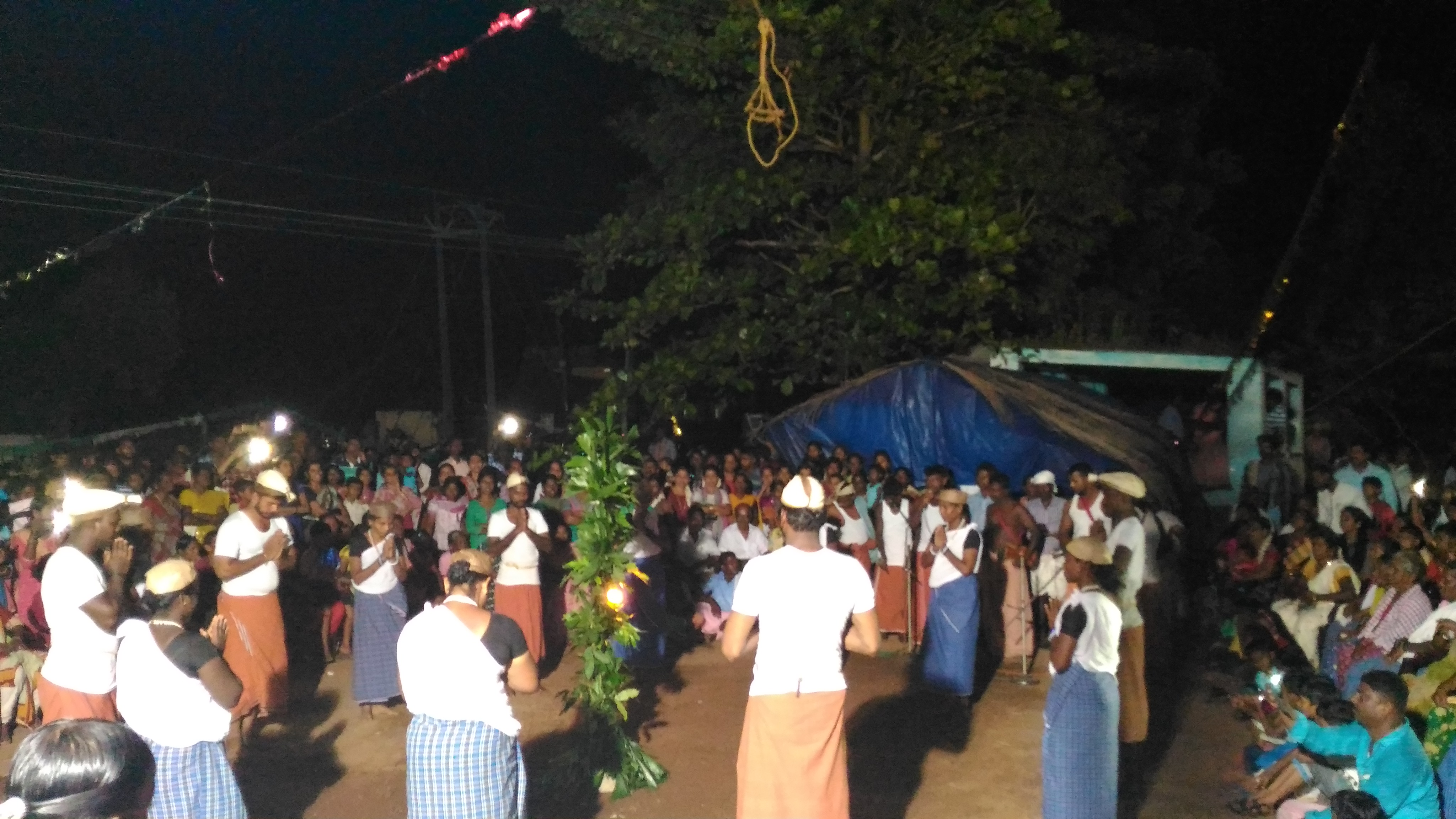 Mangalam kali is a dance ritual related to marriage functions as a form of entertainment. Usually mavilas (a tribe in kasaragod and kannur districts Kerala state of south India perform this. Certain music instruments too are used like thudi.